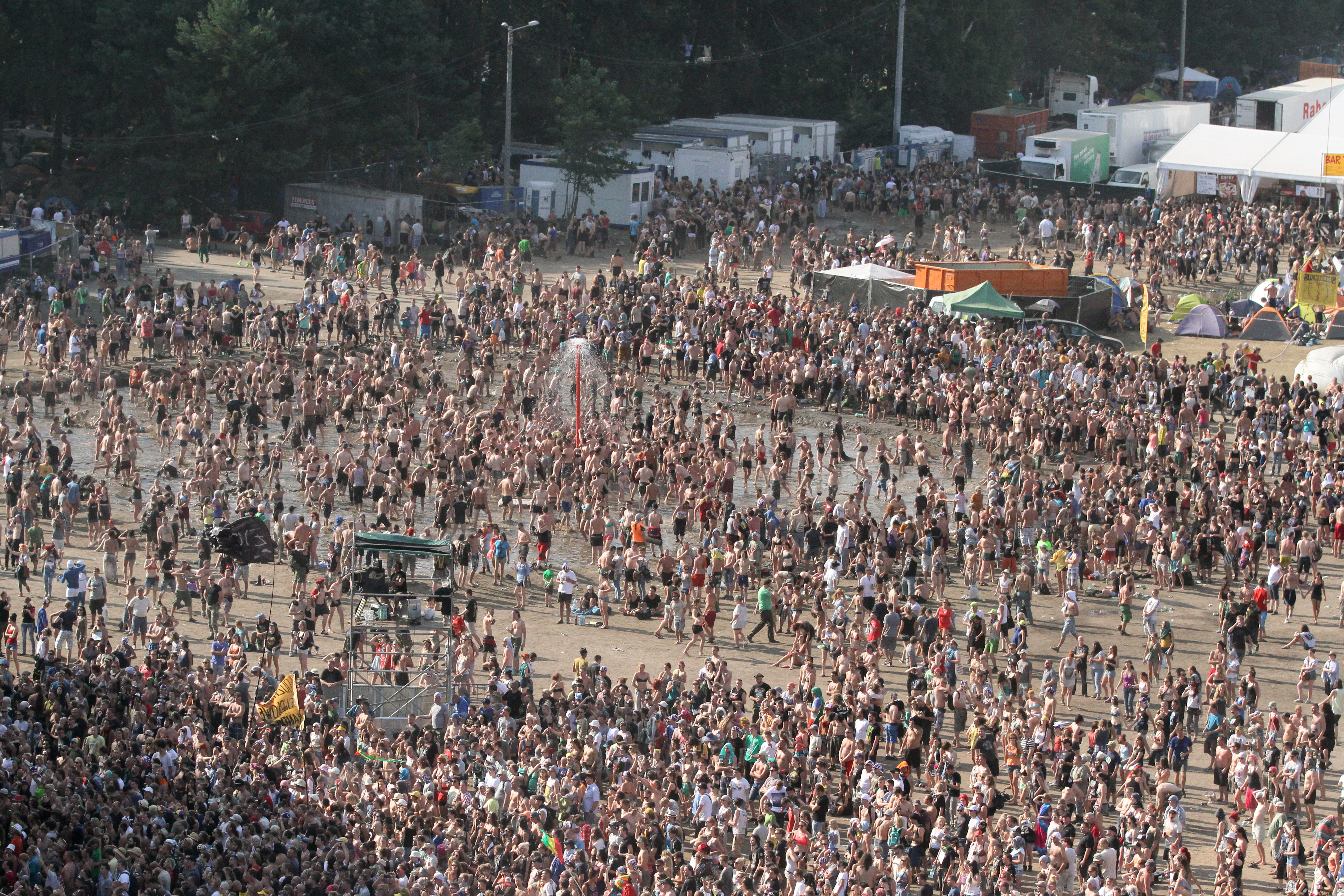 Przystanek Woodstock in 2014.